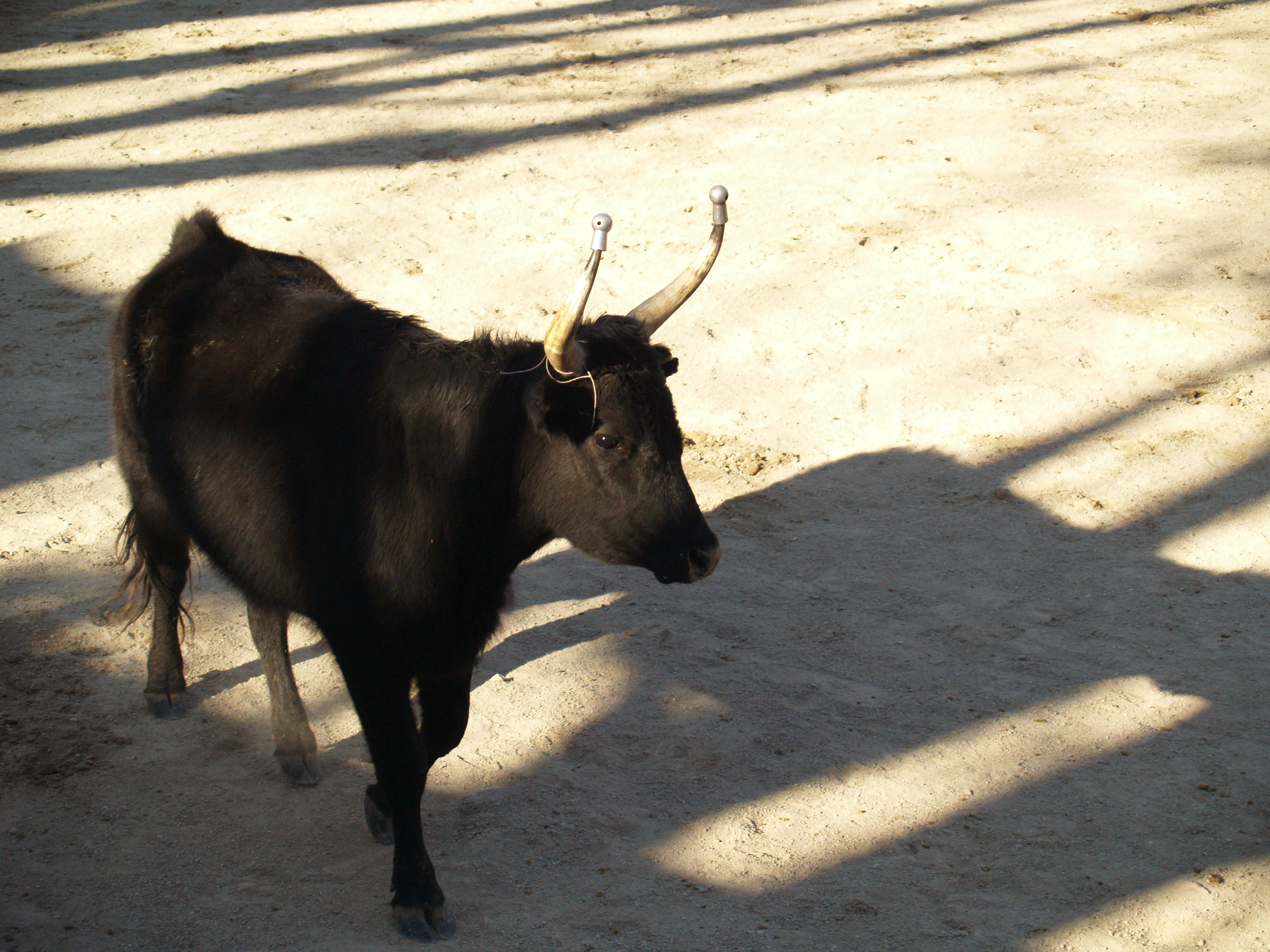 Camargue cow in the bullring